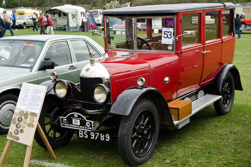 Morris Oxford Landaulette by Chalmer & Hoyer exhibited at the 1926 Olympia Motor Show, 1760cc, 108 inch wheelbase Llandudno Transport Festival 04/05/2013 First owner: Harold Livingstone Tapley